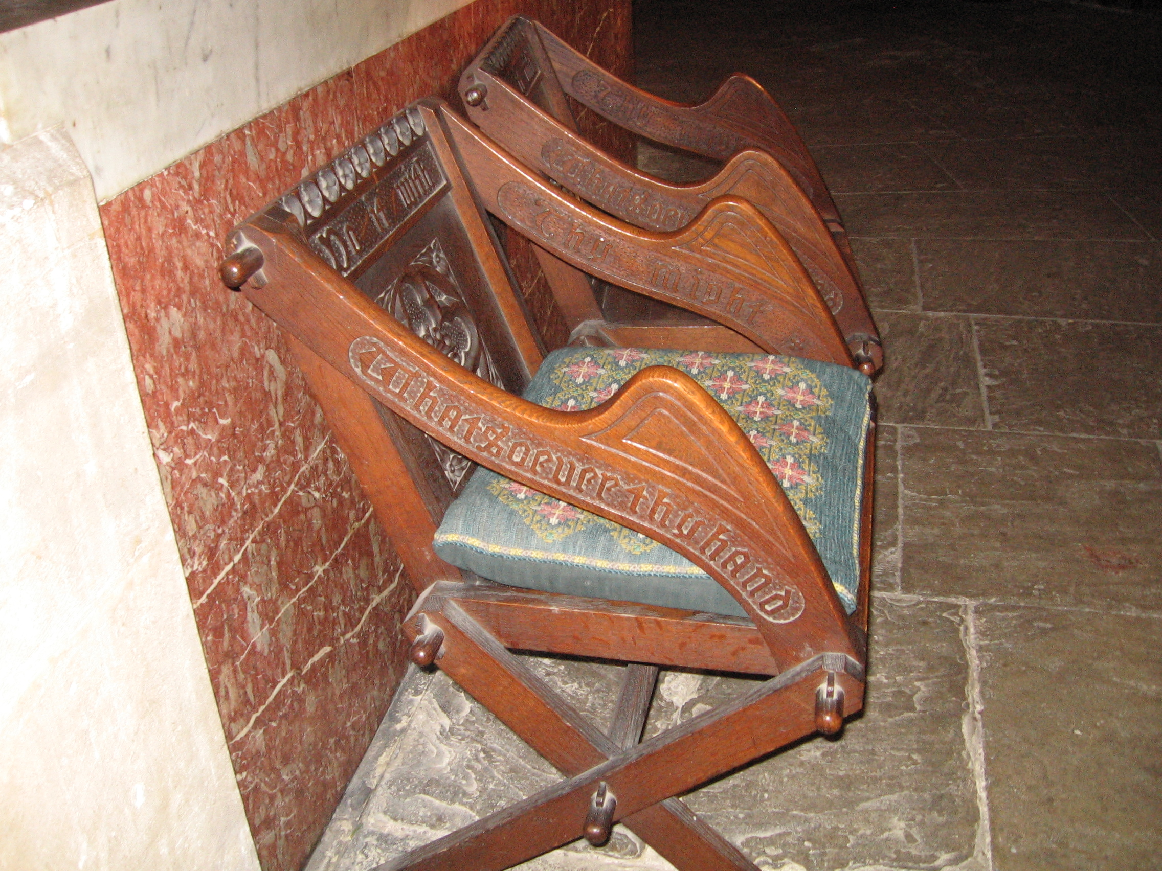 Saint Finbarre's Cathedral, Chairs inscribed with the first half Own work (Original text: Bible) (Transferred by vivek7de) (King James)/Ecclesiastes#9:10|Ecclesiastes 9:10 . This portion of the verse is also the open motto of Theta Tau.